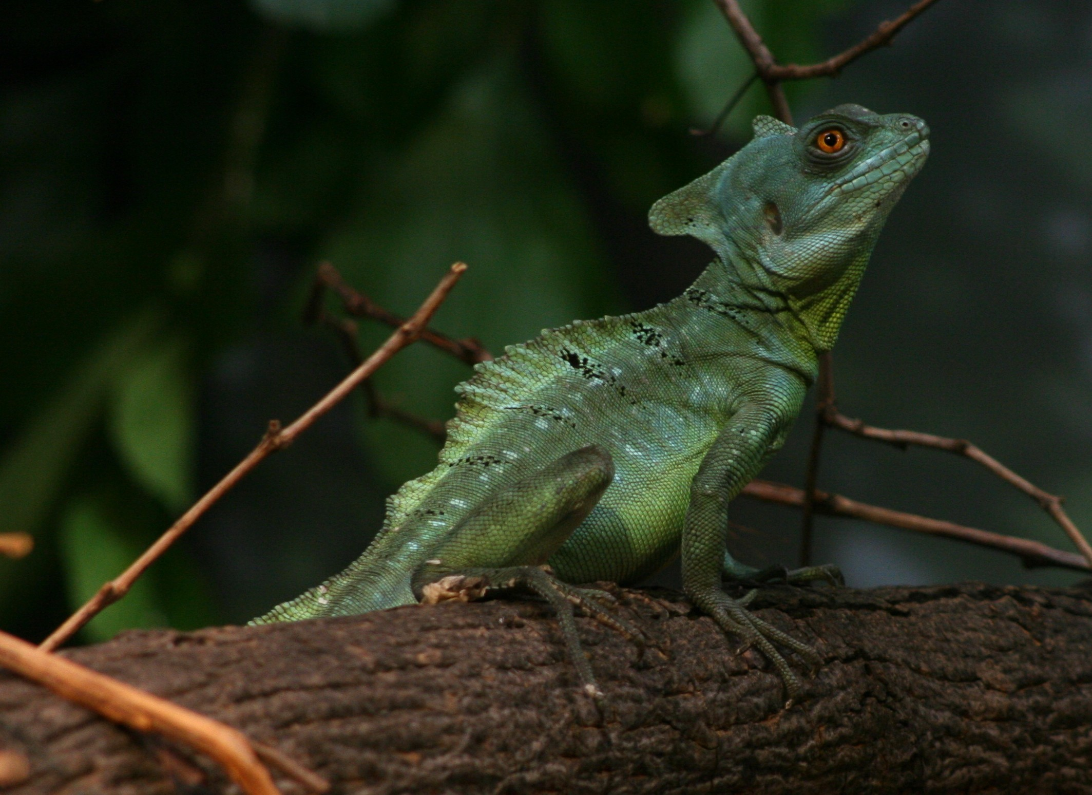 Plumed basilisk (Basiliscus plumifrons) at the Buffalo Zoo